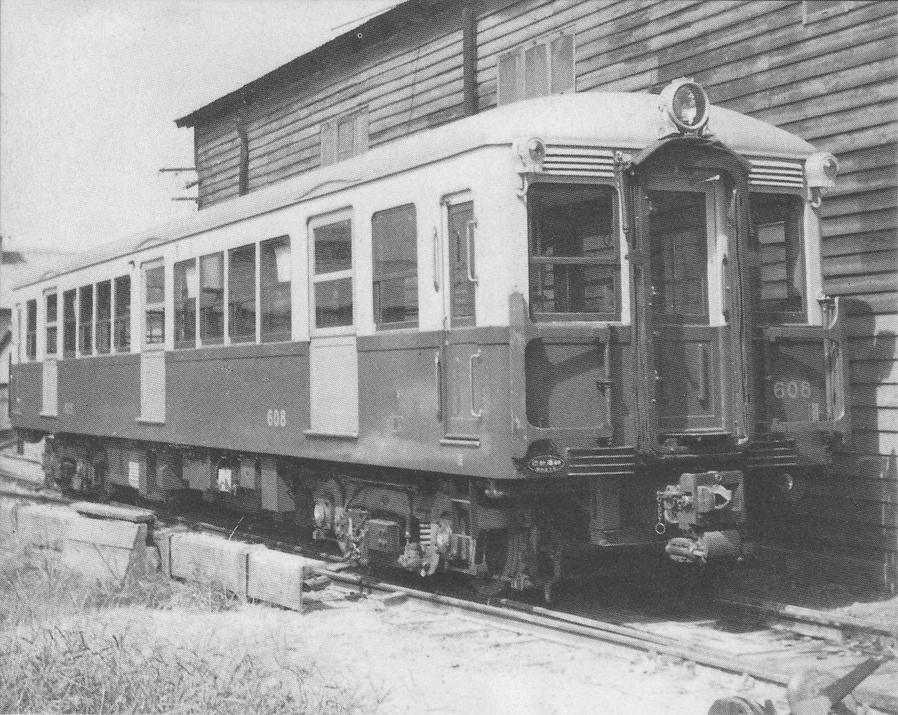 Osaka Municipal Subway #608. Shooting earlier than 1954.